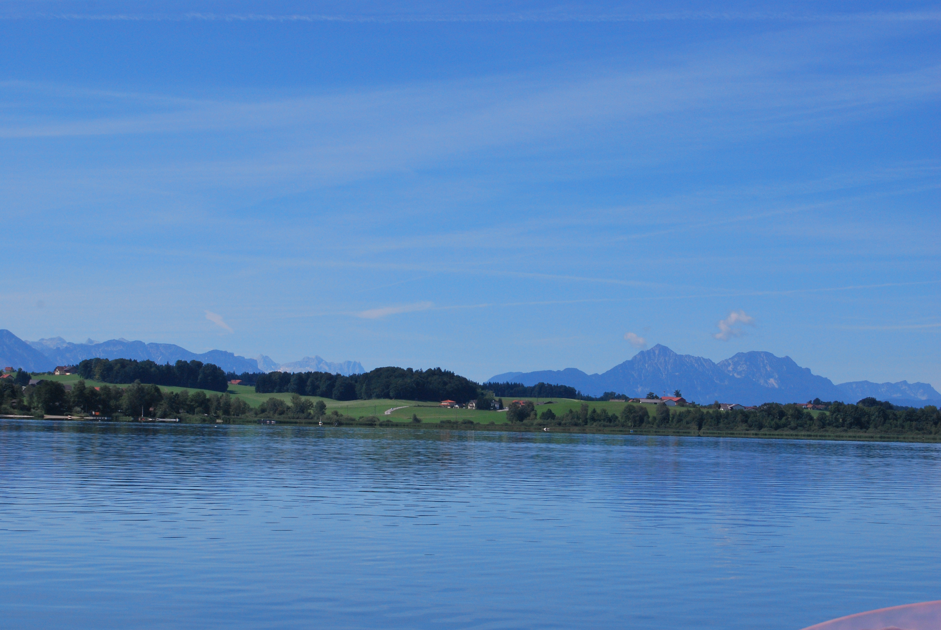 Wallersee, Salzburg, Austria